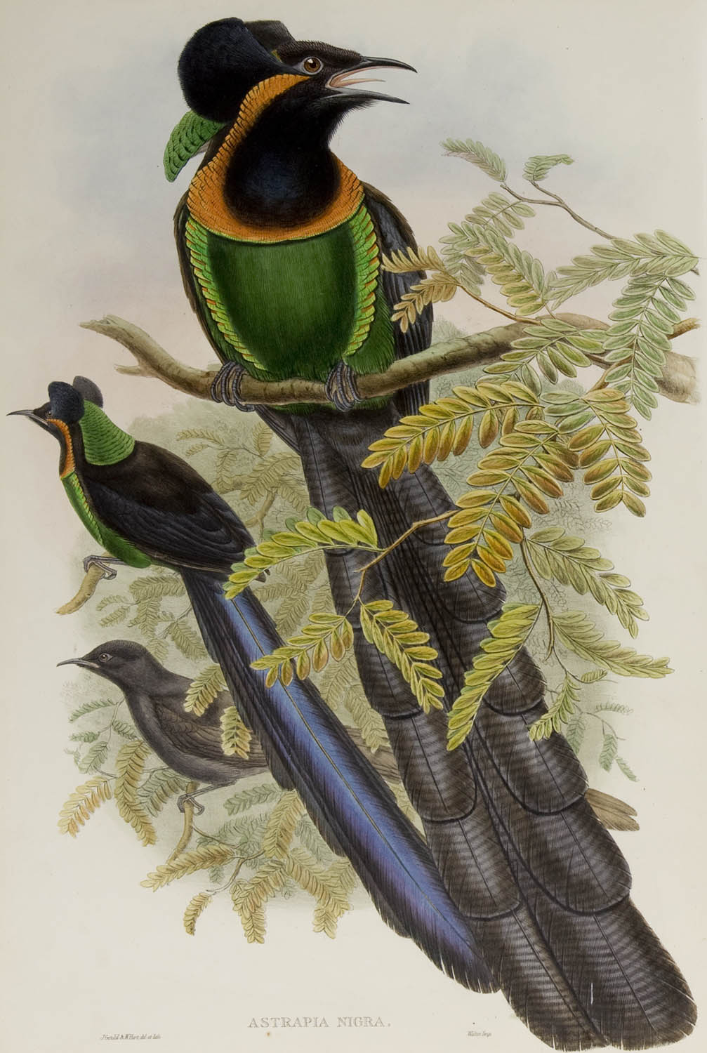 Astrapia nigra- The birds of New Guinea and the adjacent Papuan islands : including many new species recently discovered in Australia. v.1 (Plate XVII).